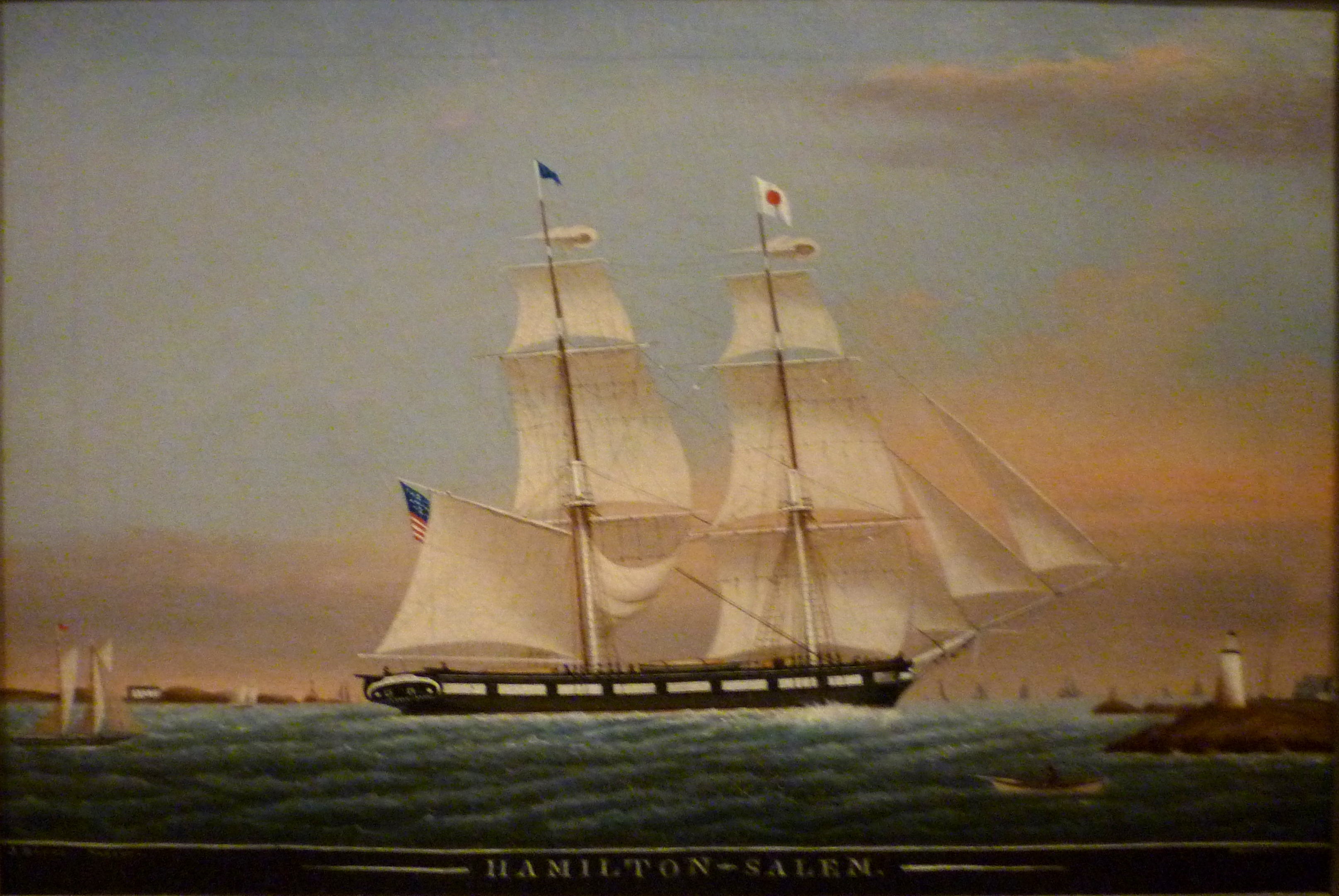 Portrait of the ship Hamilton